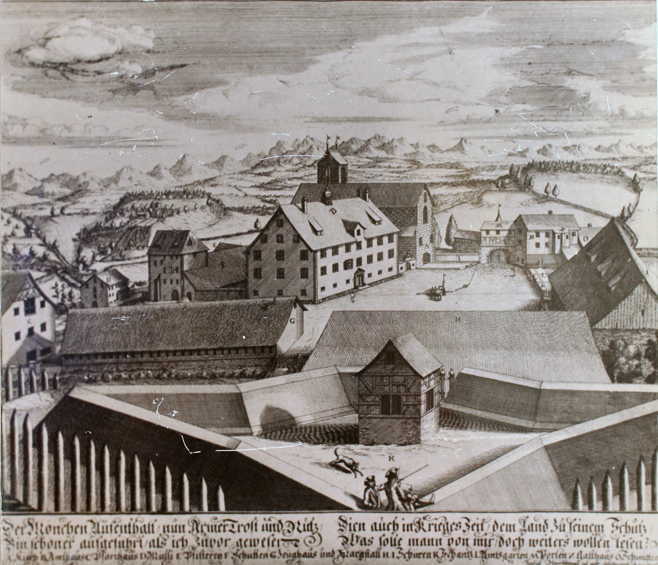 The former monastery of Rüti ZH 1741